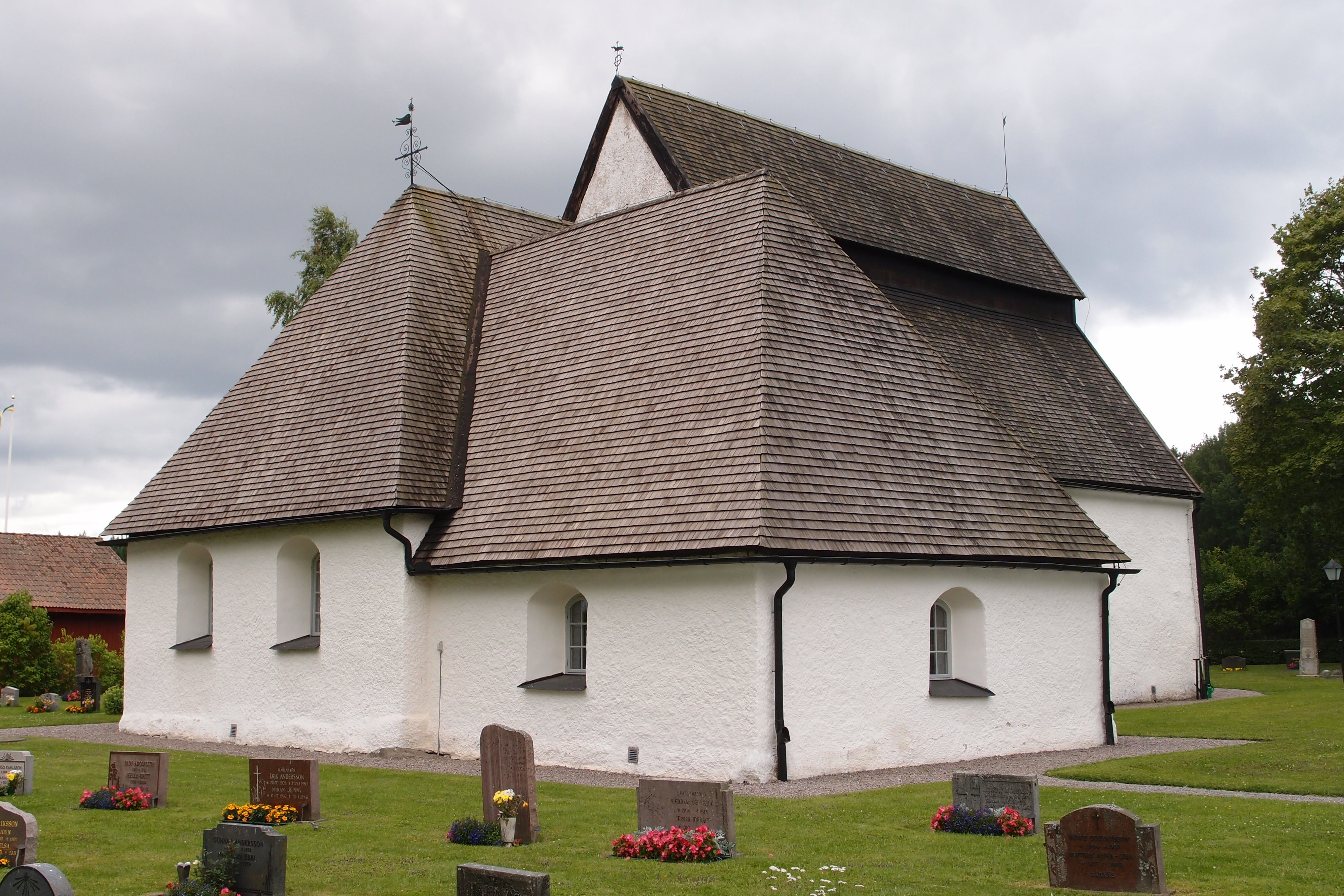 Värna Church